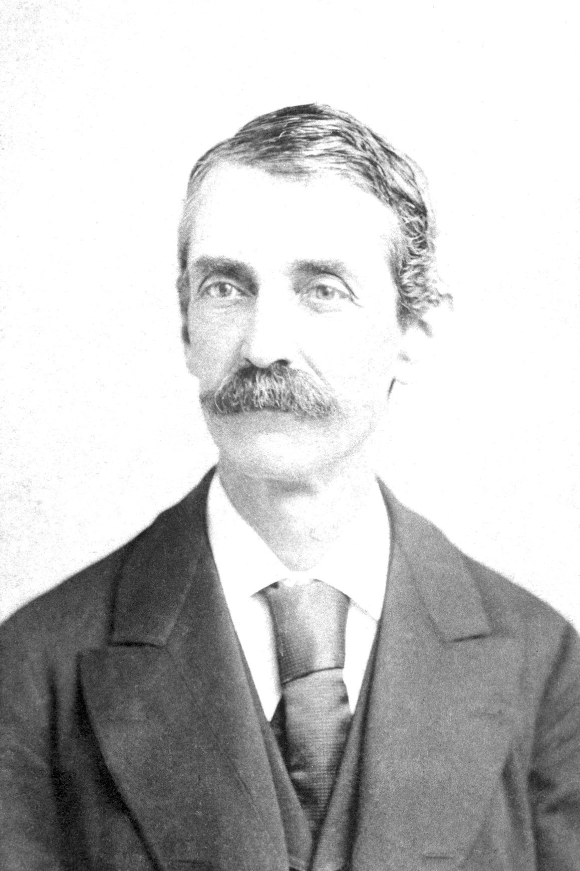 William Rich Hutton (1826-1901) of Clopper (now part of Gaithersburg), shown here in 1880. He was a civil engineer and a farmer. From the Woodlands collection, MCHS Library.